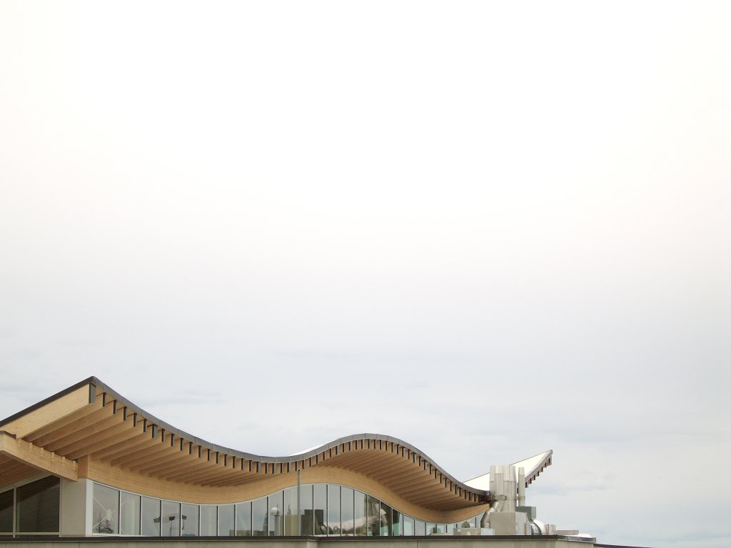 University of Northern British Columbia is quite new and has many interesting buildings.